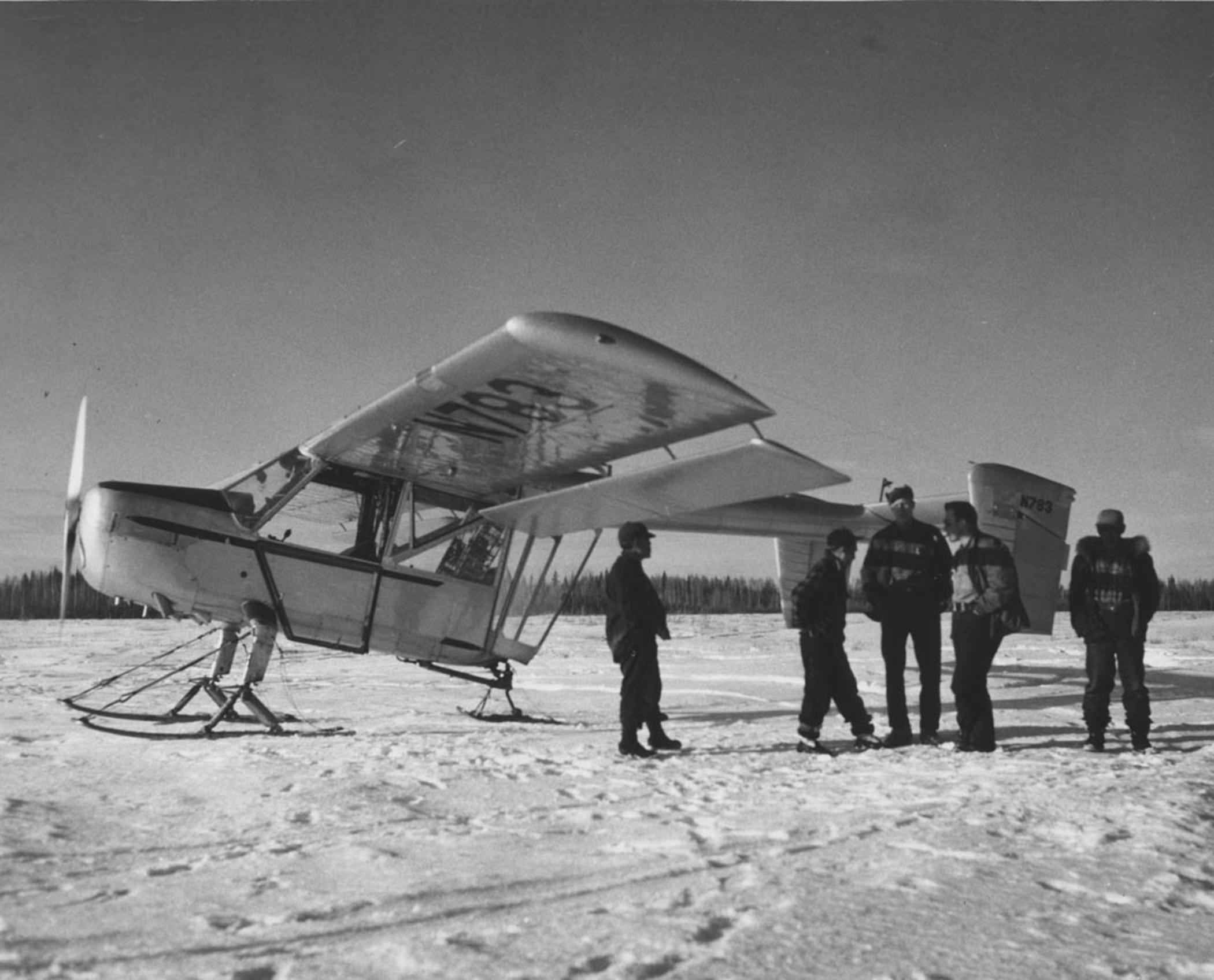 Image title: Pilot and crew members with plane (Agent Tremblay and small N783 plane) Image from Public domain images website